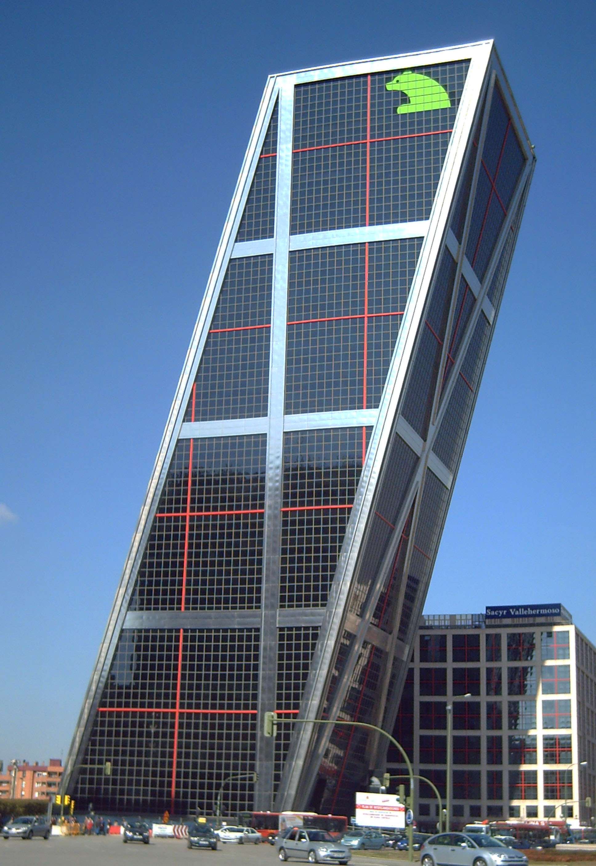 View of Puerta de Europa I (west building) in Madrid (Spain).